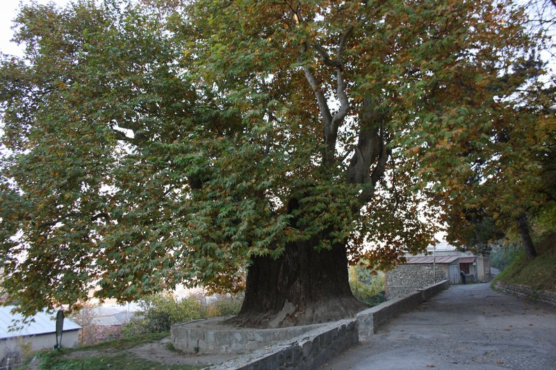 more than 900 year old Platanus Orientalis in Telavi, Georgia